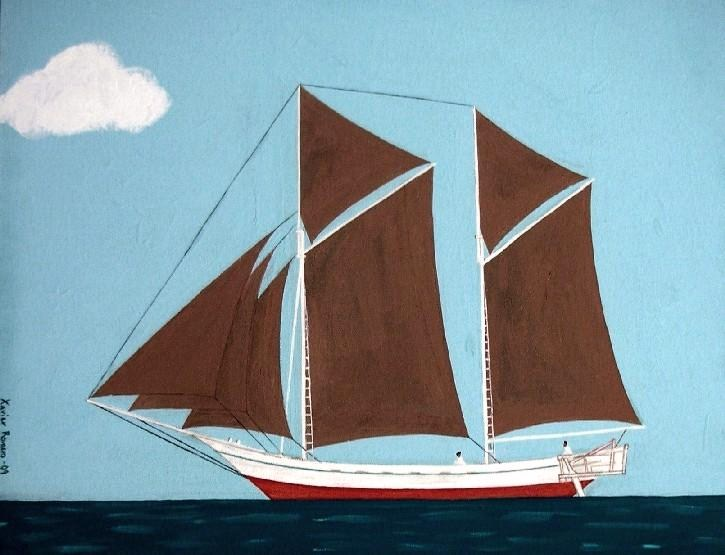 pinisi. Indonesian trading boat. Acryilic on canvas